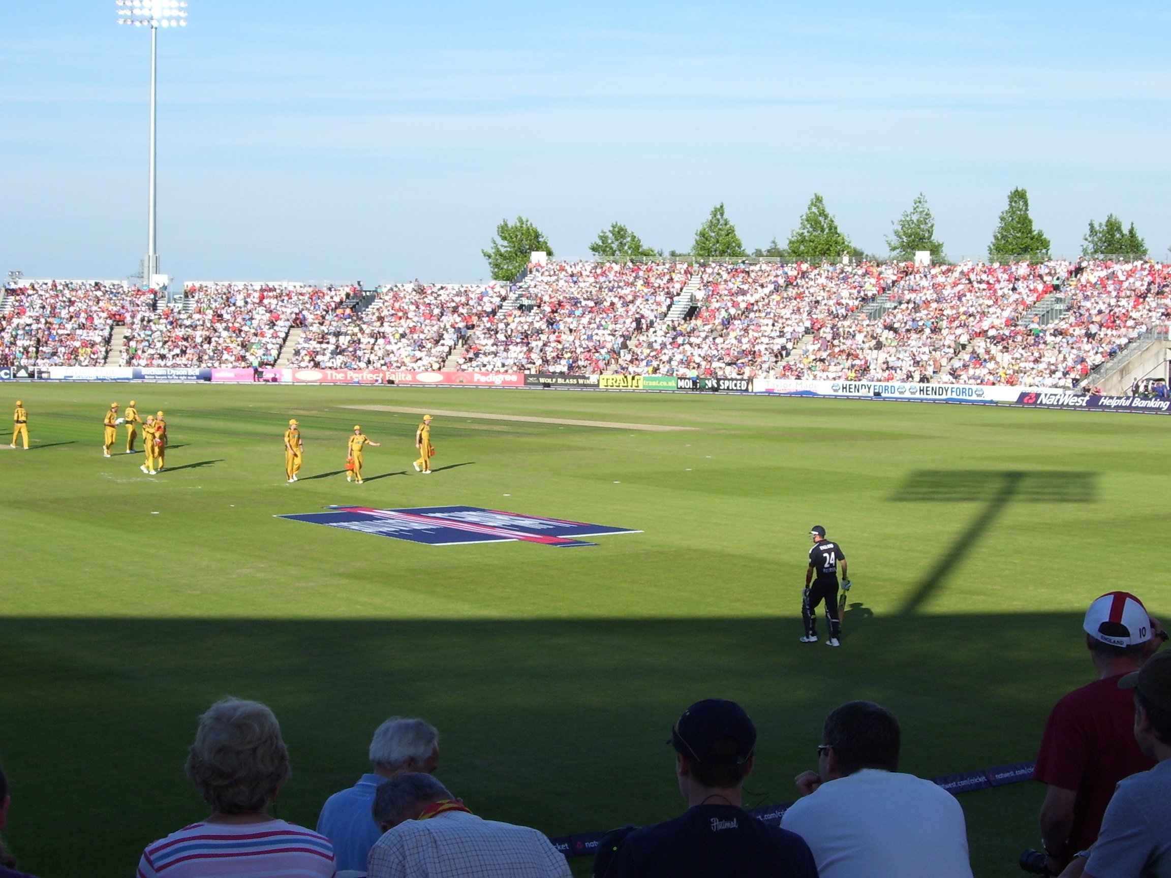 Kevin Pietersen walking out to bat in his 100th ODI against Australia at the Rose Bowl on 22 June 2010.